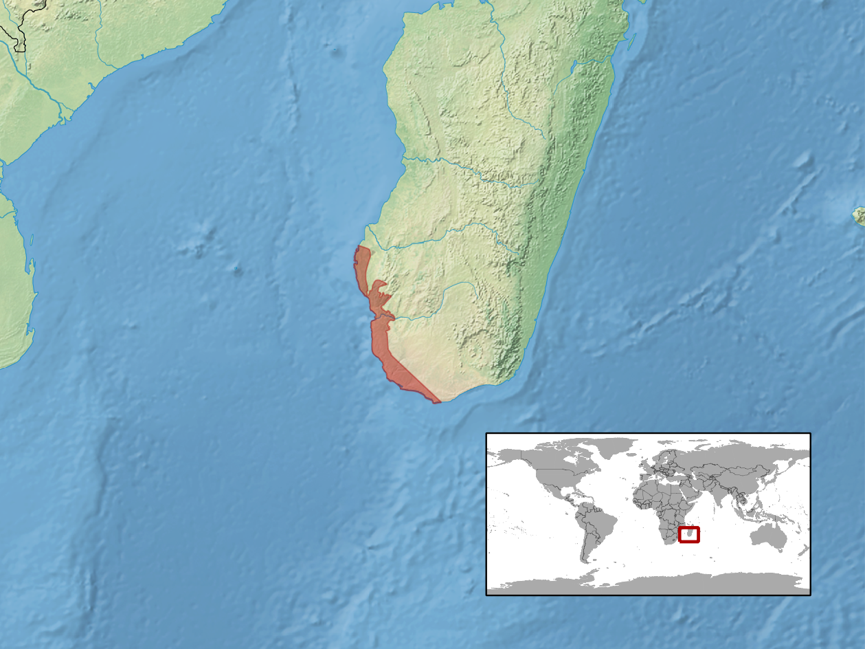 geographic distribution of Matoatoa brevipes (Native: Madagascar)